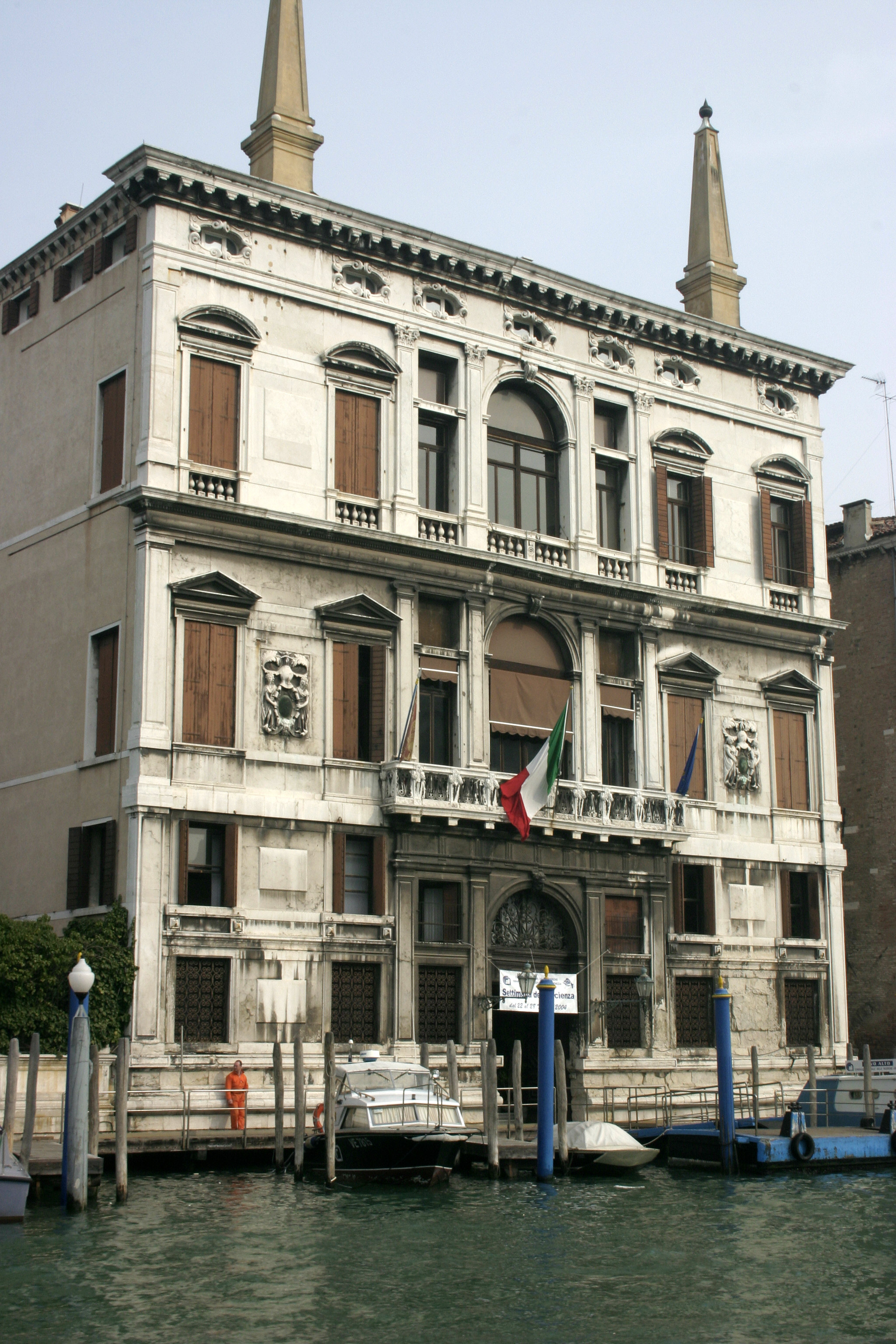 Venice - Papadopoli’s Palace on the Grand Canal